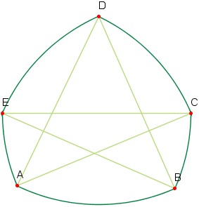 A specific curve of constant width composed of five arcs.